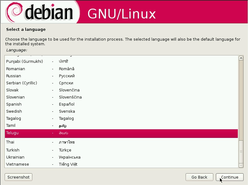 Debian Installer screenshot from Squeeze